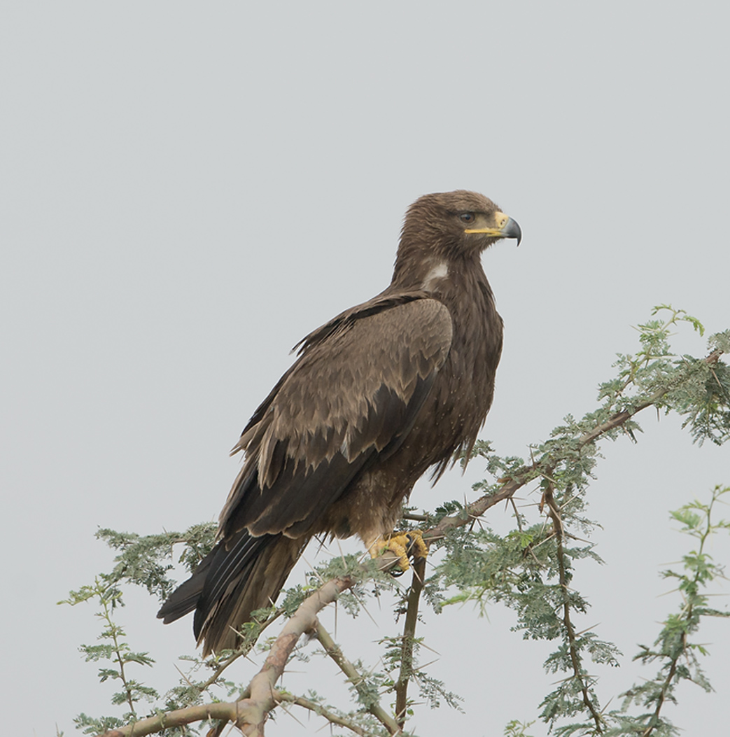 Tawny Eagle ( Aquila rapax) in dark morph. Hessaraghatta, Bangalore. This place used to be Hessaraghatta Lake or Reservoir created by building an earthen dam across River Arkavathy originating from Nandi Hills in 1894 to provide drinking water to Bangalore. Now the river has gone dry due to land modification and development. The lake too is just a dry barren land. The rich avifauna of the area is fast vanishing too.